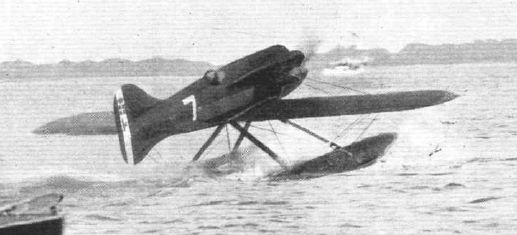 Italian Macchi M.67 racing floatplane